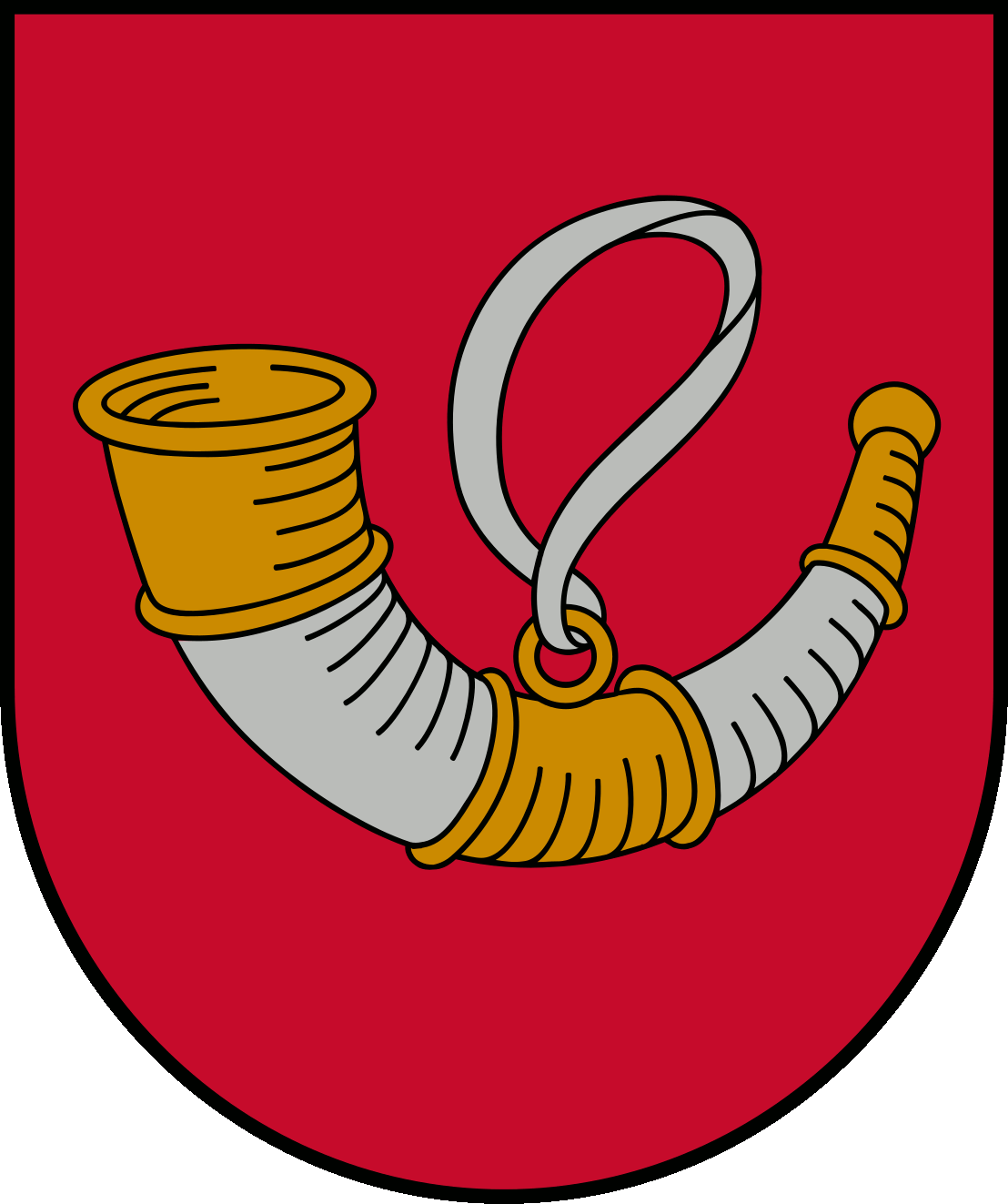 Coat of arms of Auce Municipality, Latvia